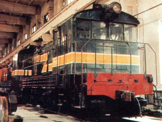 China Railways ND1 diesel locomotive in 1958, imported from Hungary.